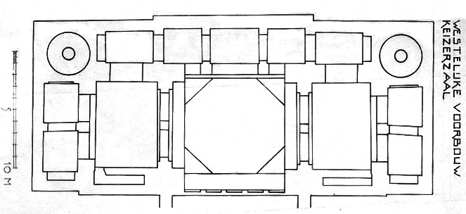 Floorplan of the Emperor Hall's level of the westwork of the Basilica of Saint Servatius in Maastricht, the Netherlands. The plan is based on a file donated to Wikimedia by Rijksdienst voor het Cultureel Erfgoed on 7 January 2013.